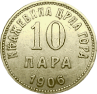 10 Montenegrin para, from the 1906thSrpski (latinica): 10 crnogorskih para, iz 1906.